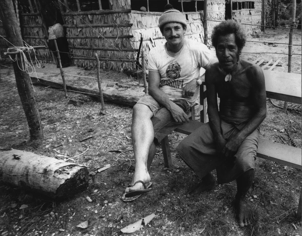 Foss Leach and Wilson who is wearing a 3,000 year old amulet which he found. In the background is the school at Namu, Taumako island, renamed the "Foss Primary School" in his honour.